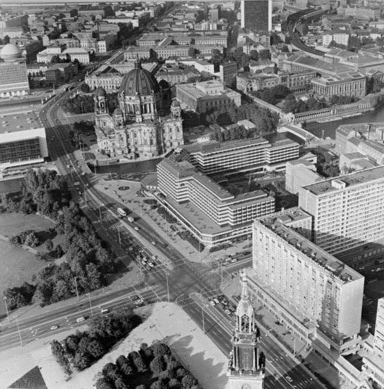 Factual corrections and alternative descriptions are encouraged separately from the original description. Additionally errors can be reported at this page to inform the Bundesarchiv. Original historic description: Berlin, "Palasthotel", Dom ADN-ZB Schindler 24.9.84 Berlin: Stadtzentrum-Ein Teil des Berliner Stadtzentrums aus der Vogelperspektive fotografiert. Im Vordergrund: die Kreuzung Karl-Liebknecht-Straße-Spandauer Straße. Bildmitte: Palasthotel und Dom.